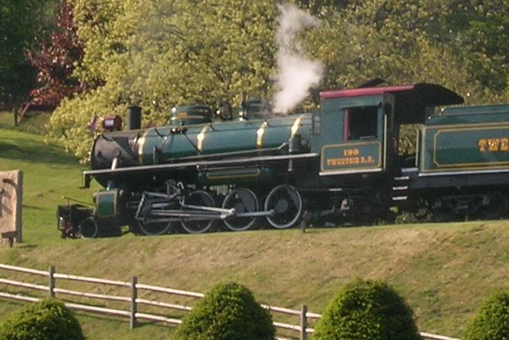 Tweetsie Railroad Locomotive #190, taken by SB7177 (myself) on 5/20/2007.